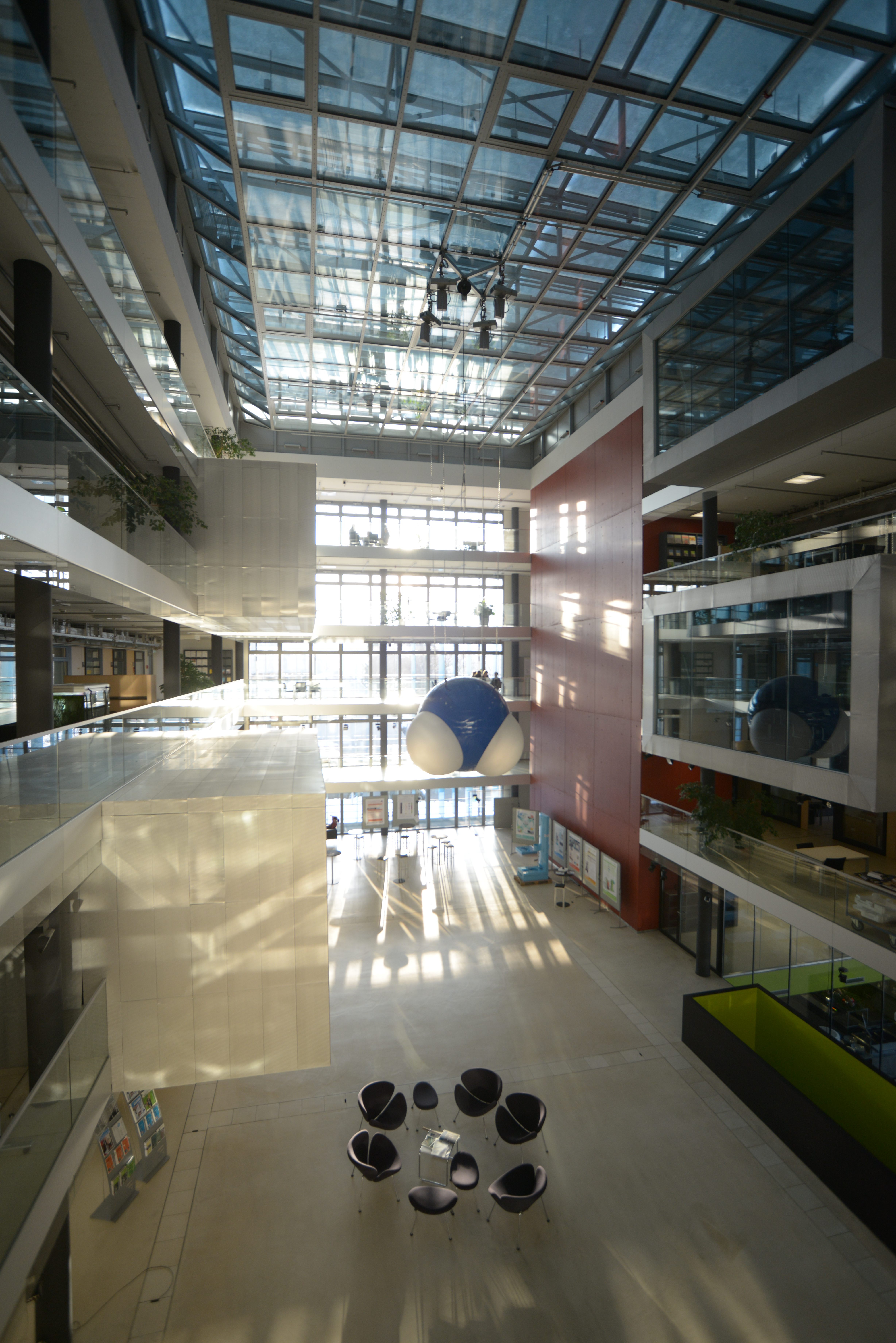 Atrium of Eawag Forum Chriesbach building